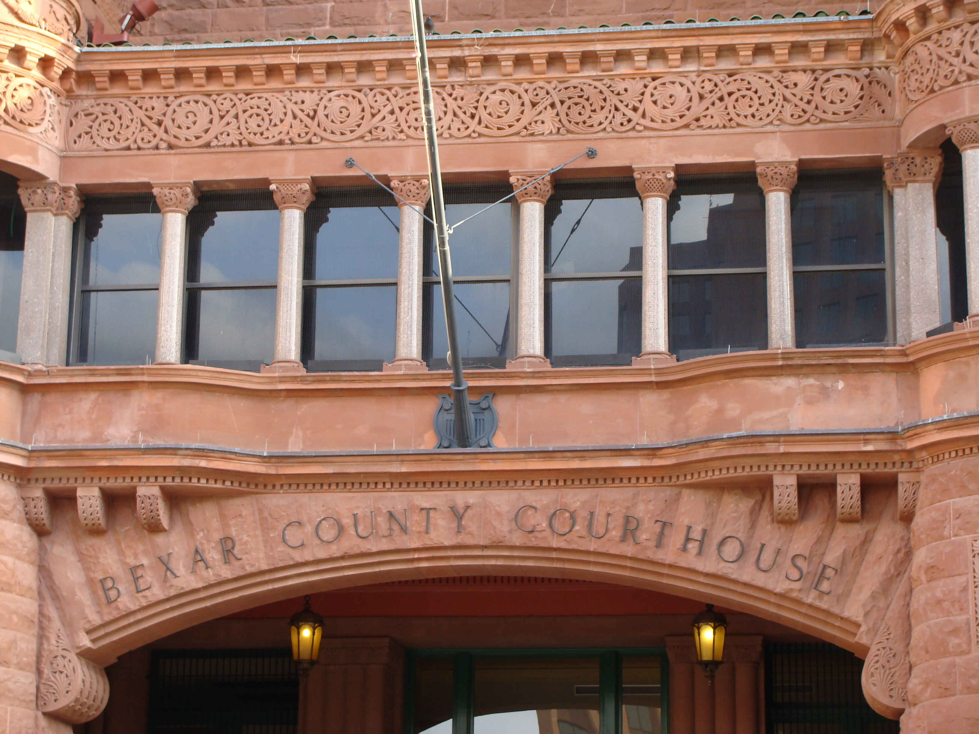 Bexar County Courthouse, San Antonio, Texas